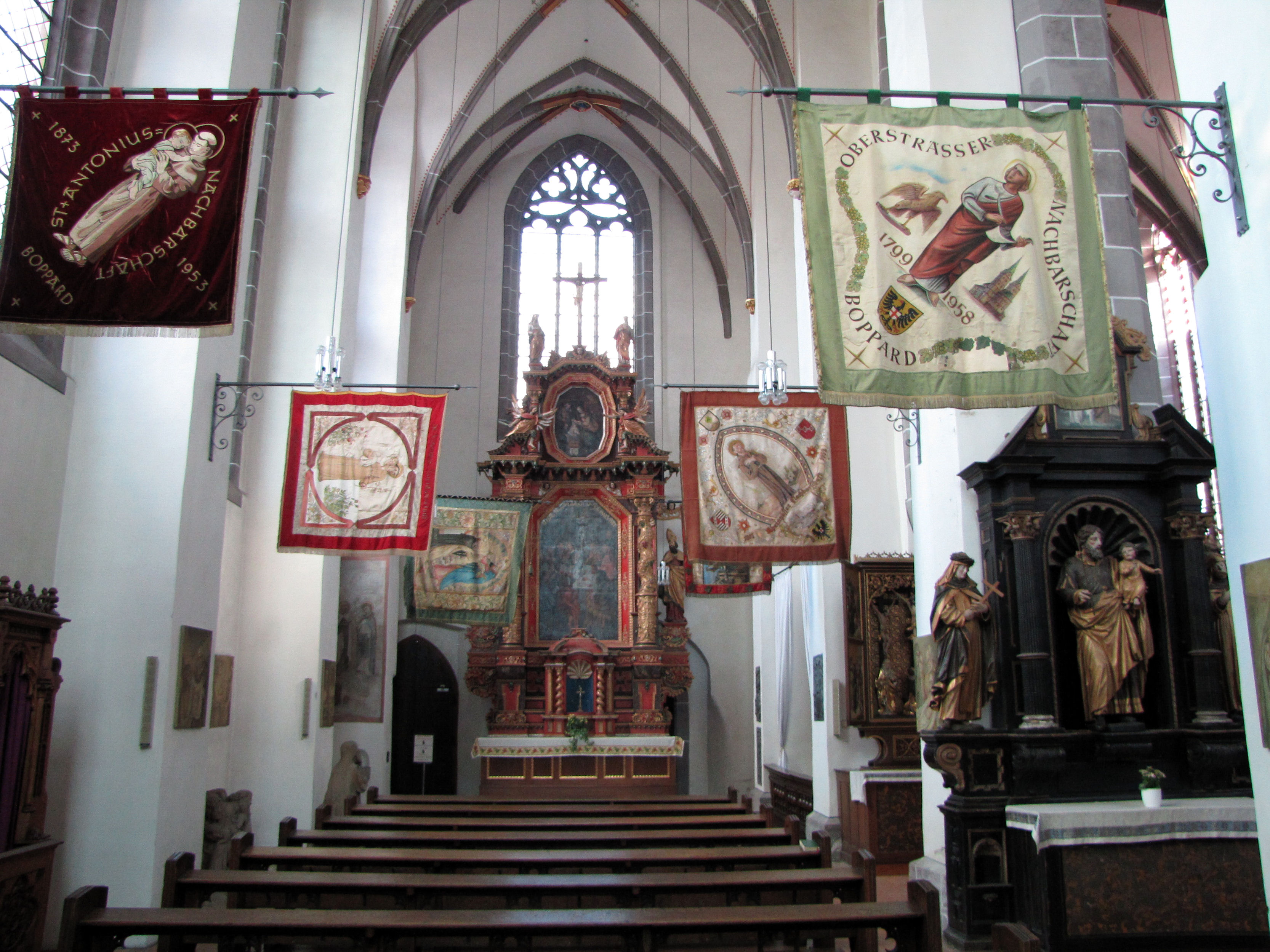 Interior of the Karmeliterkirche in Boppard